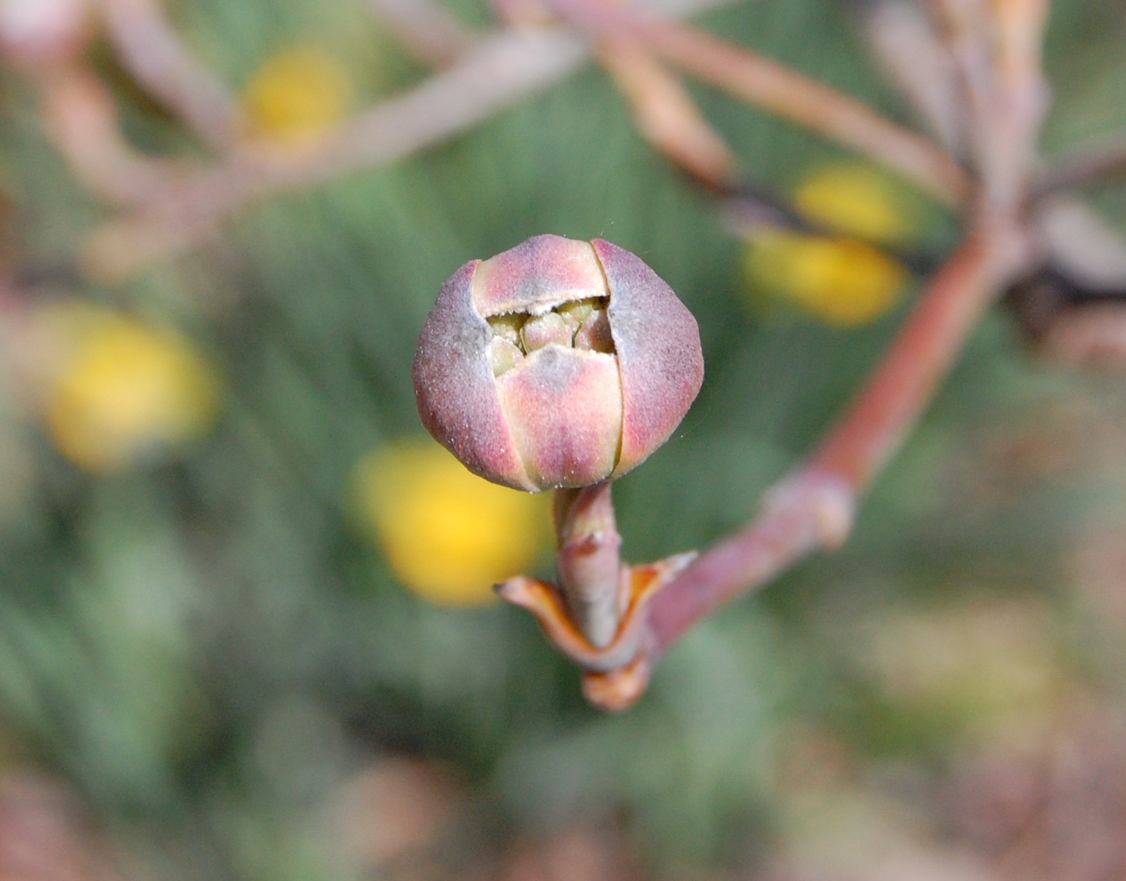 Dogwood blossom, about to bud out